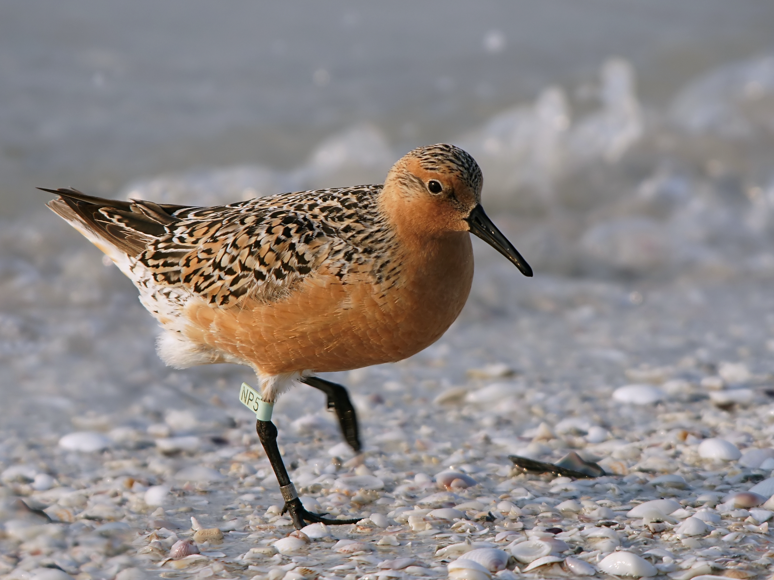 Red Knot in breeding plumage at Sanibel Island in Lee County, Florida, U.S.A.